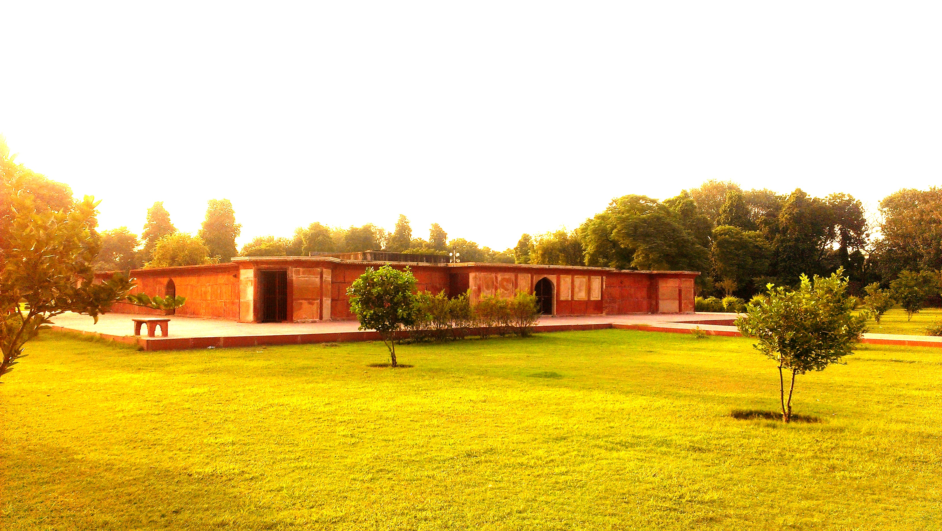 The mausoleum (tomb) stands in the centre of a large garden enclosure with a raised platform, originally veneered with sandstone, with two inscribed marble cenotaphs on its top, traces of which can be seen. One belongs to Najaf khan and the other to his daughter Fatima. The real graves are located in one of the two chambers in the core of the platform. An enclosure wall covers the whole complex. Najaf Khan was related to the Safavi kings of Persia and came with his sister to the court of Muhammad Shah (A.D 1719-48). Later he had entered the services of Shah Alam II (A.D. 1759-1806) and had proved to be one of the most formidable mughal Military commander until his death in 1782.